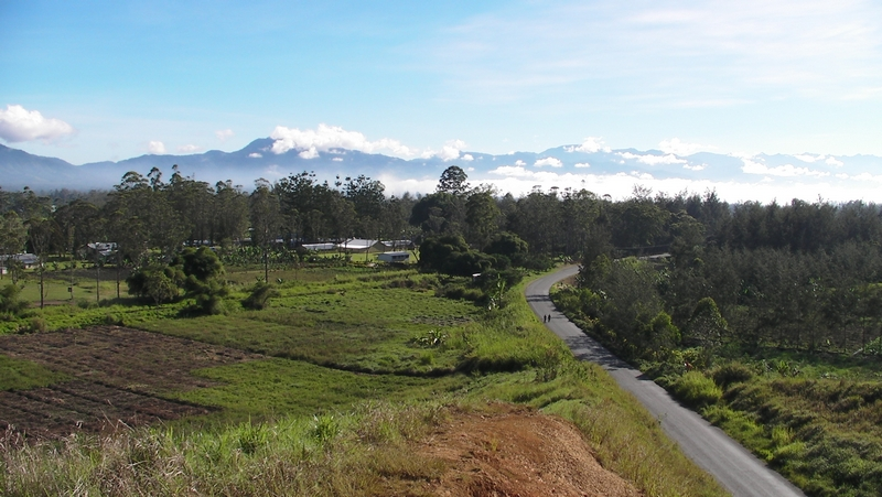 MNBC Campus looking East along the Highlands Highway coming from Mt. Hagen and going towards Kudjip.